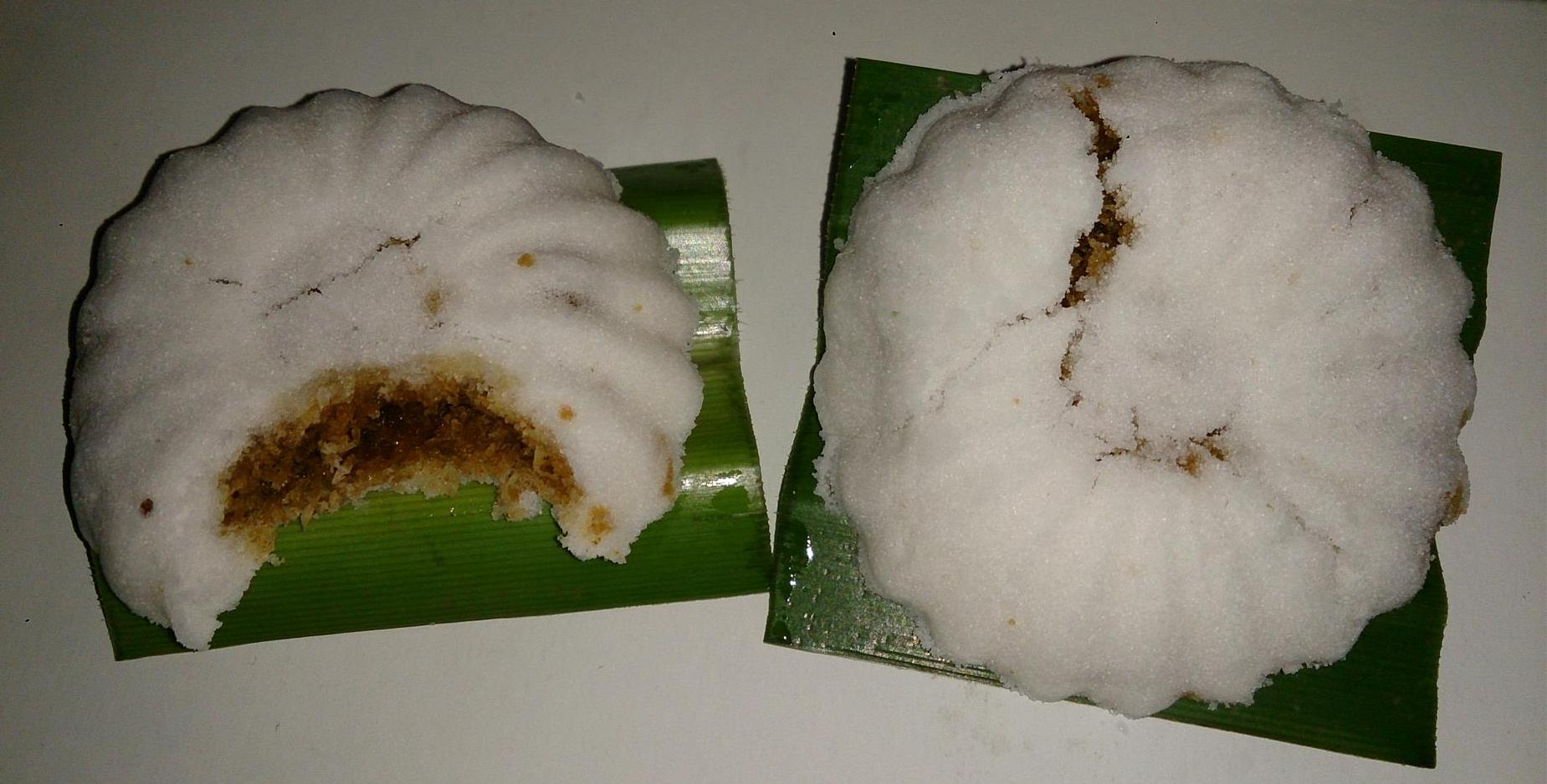 kueh tutu (also known as tutu kueh) is a traditional snack found in Singapore. The filling is usually ground peanut or coconut.